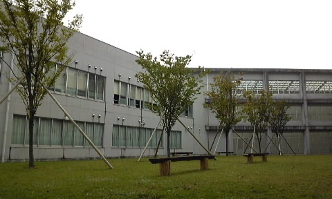 This is a picture of "Tokushimakita Senior High school's a courtyard".